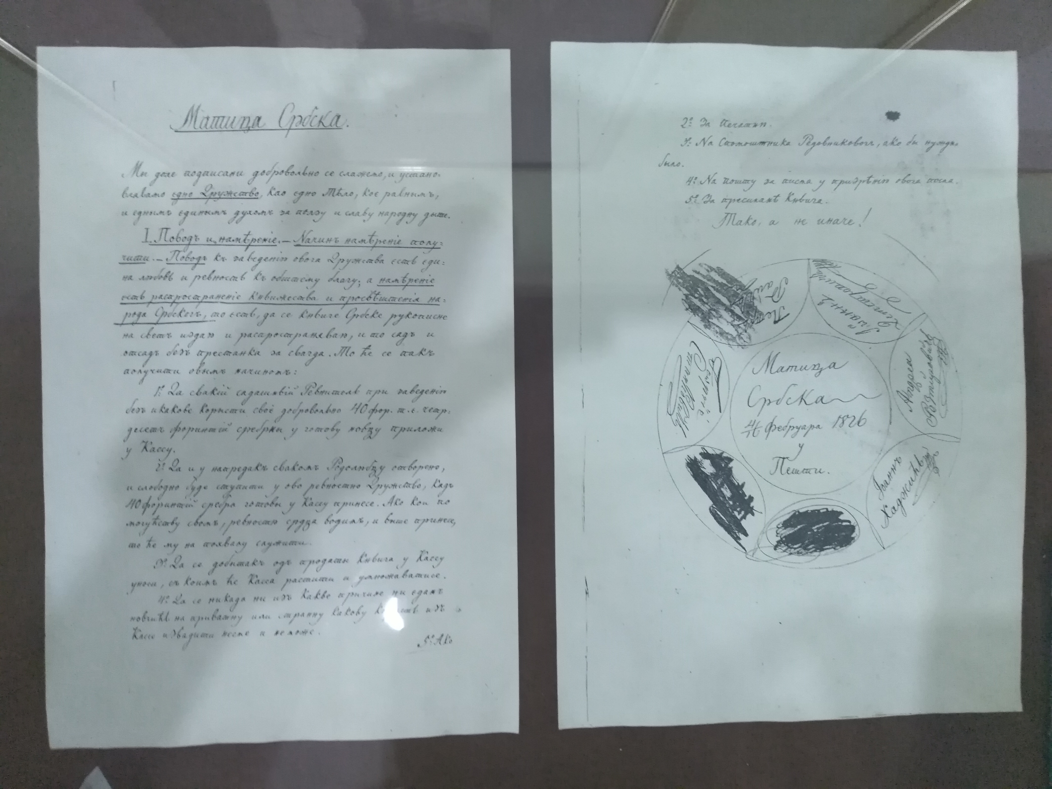 Matica Srpska Charter (1826.), kept in The Museum of Vojvodina.